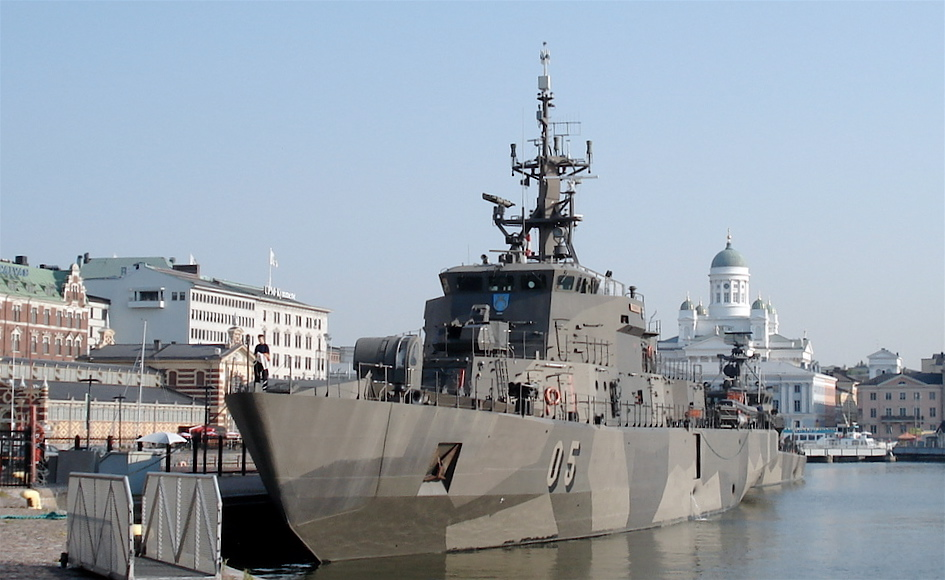 Minelayer FNS Uusimaa of the Finnish Navy at South Harbour, Helsinki, Finland.